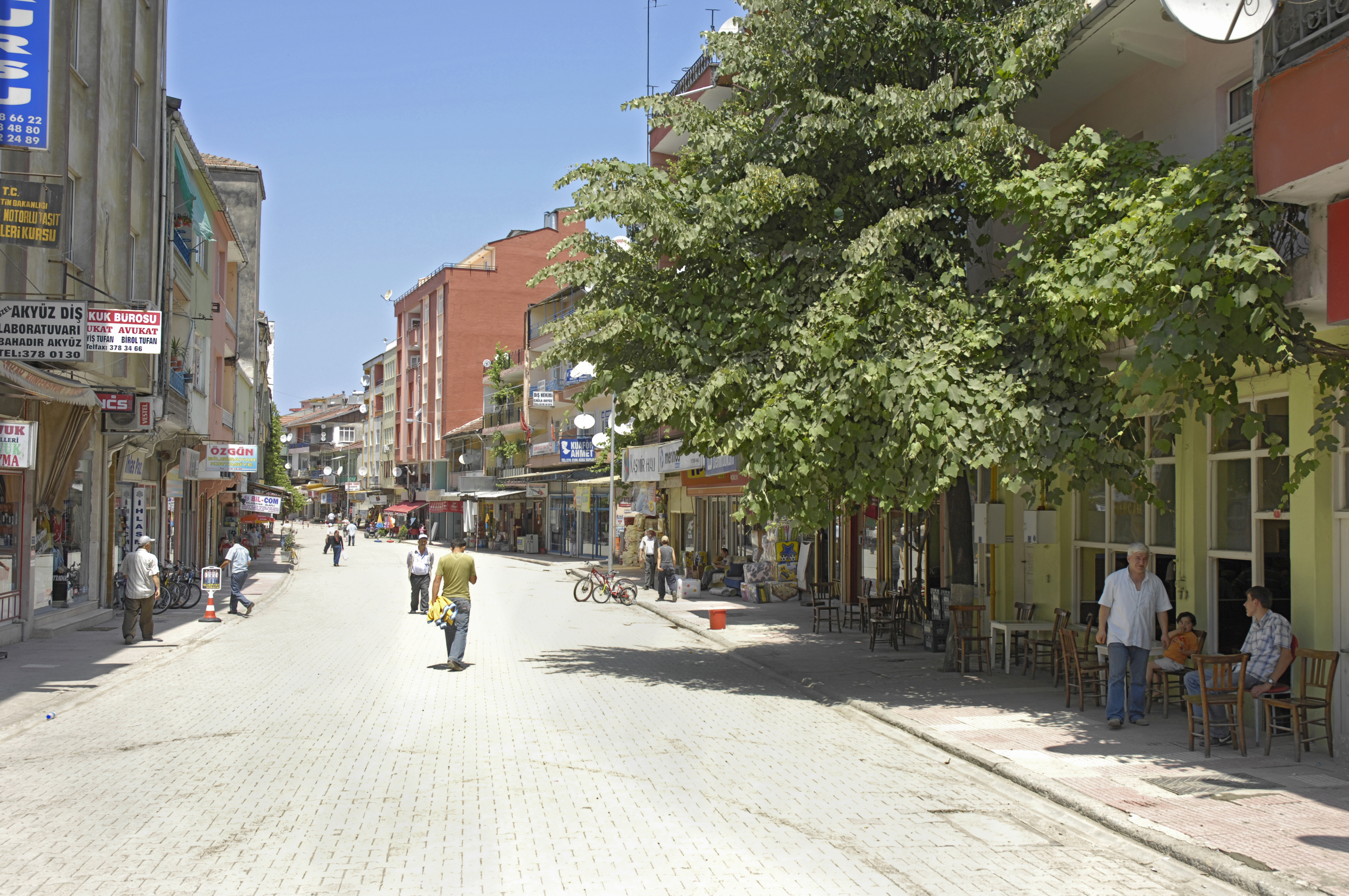 Alaplı is situated at the mouth of the Alaplı River, it is in Zonguldak province, Turkey. It has a mosque that looked new, but was somewhat in the old wooden mosques style. That was about it, this is one of the pictures taken in 2007, during a short visit. For touristic purposes the town is not relevant.